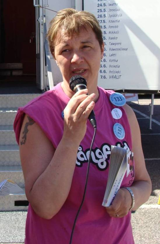 Finnish politician (Swedish People's Party) Christel Liljeström in Hanko